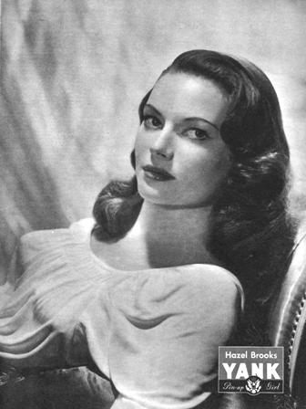 Pin-up photo of Hazel Brooks for the Dec. 22, 1944 issue of Yank, the Army Weekly, a weekly U.S. Army magazine fully staffed by enlisted men.